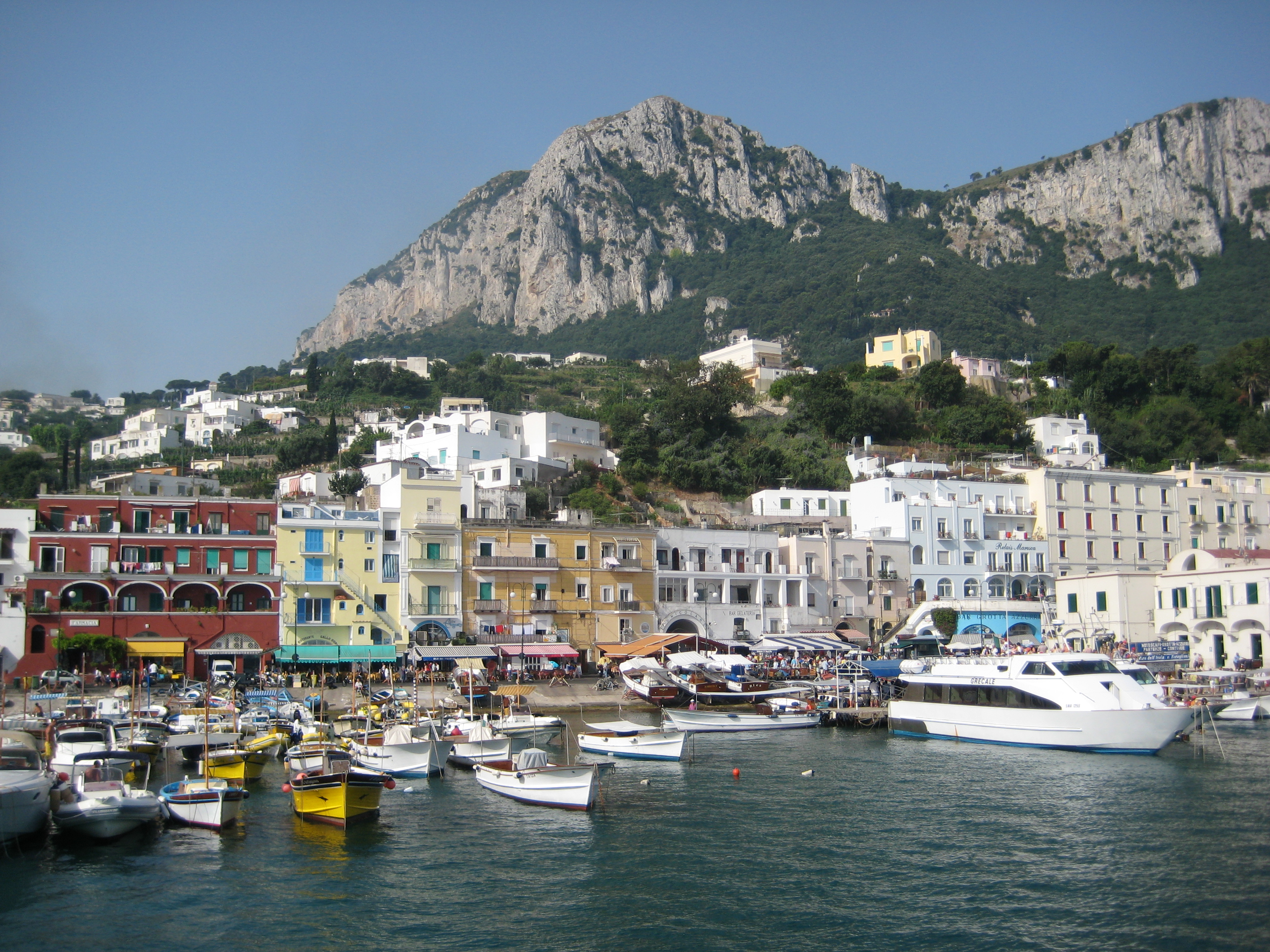 Island of Capri from a boat offshore.